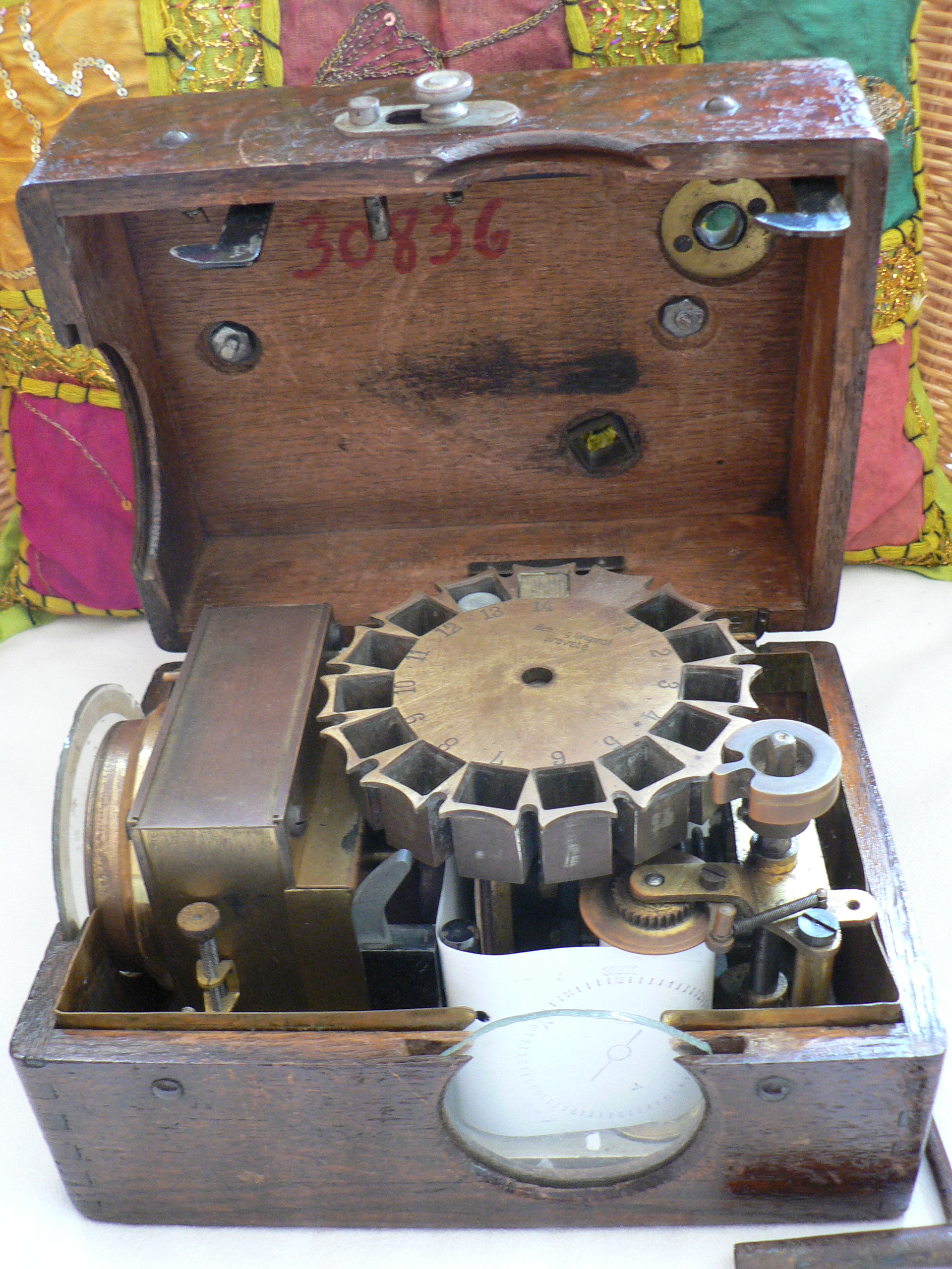 Pigeon race clock, Flanders, Belgium